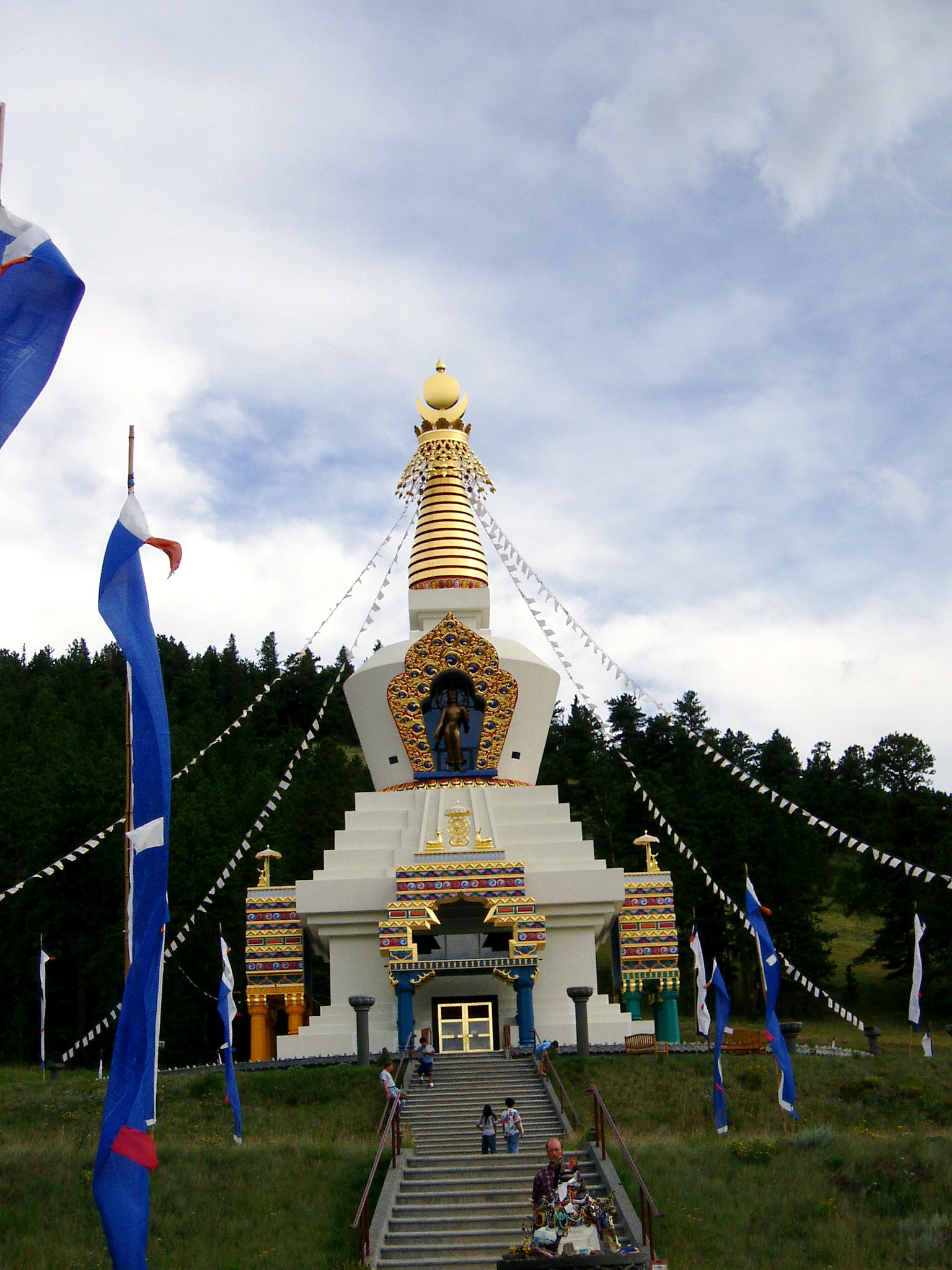 Great Stupa at Shambhala Mountain Center, taken in August 2004.